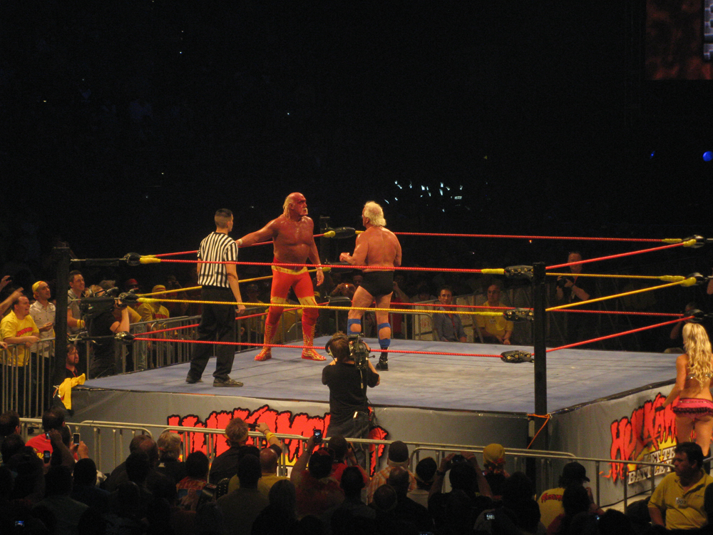 Hulkamania Tour @ Rod Laver Arena. Melbounre, AUS.